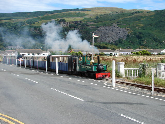 Fairbourne Miniature Railway A late afternoon train leaves Fairbourne for the Barmouth Ferry terminus.